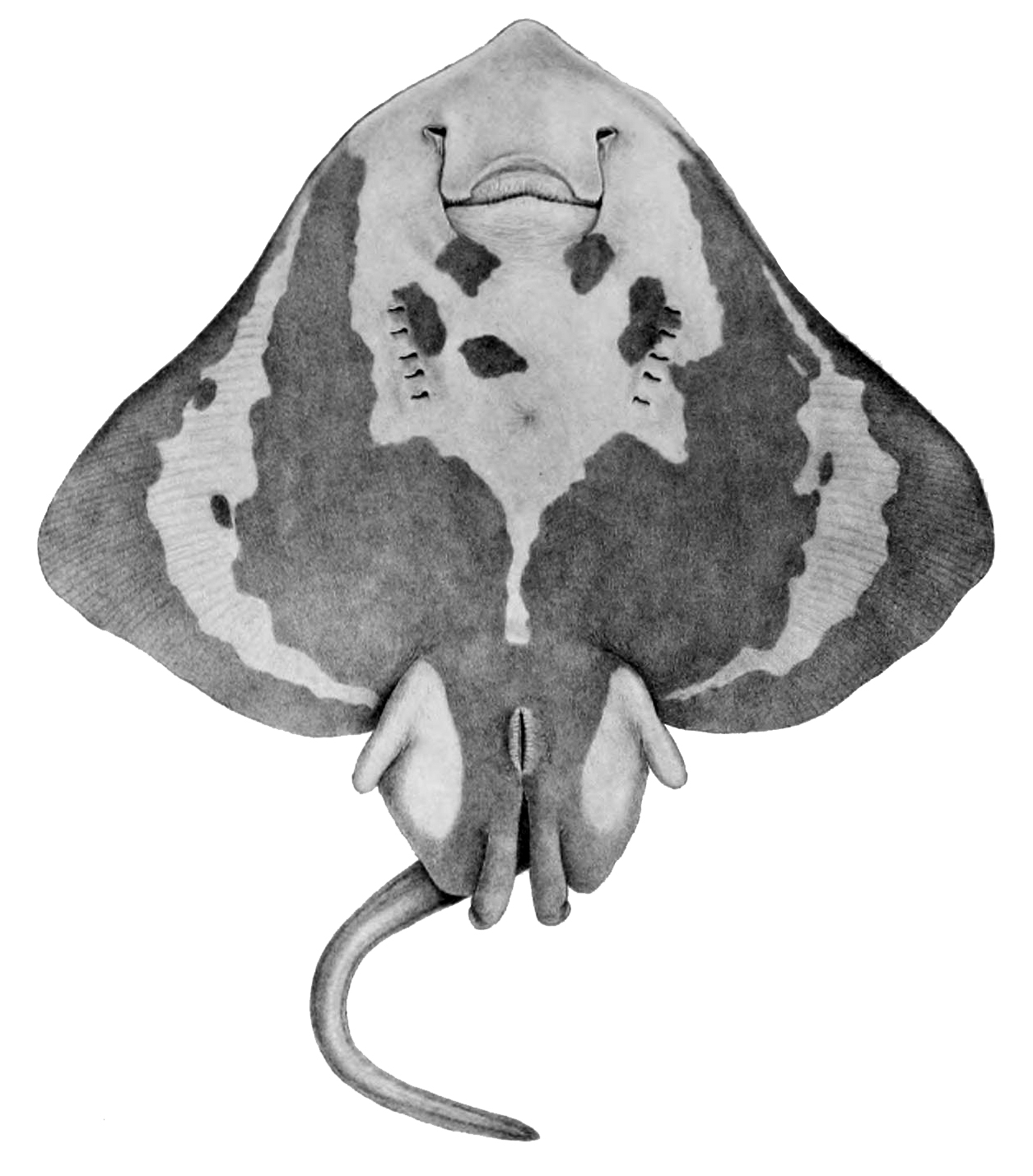 Amblyraja hyperborea